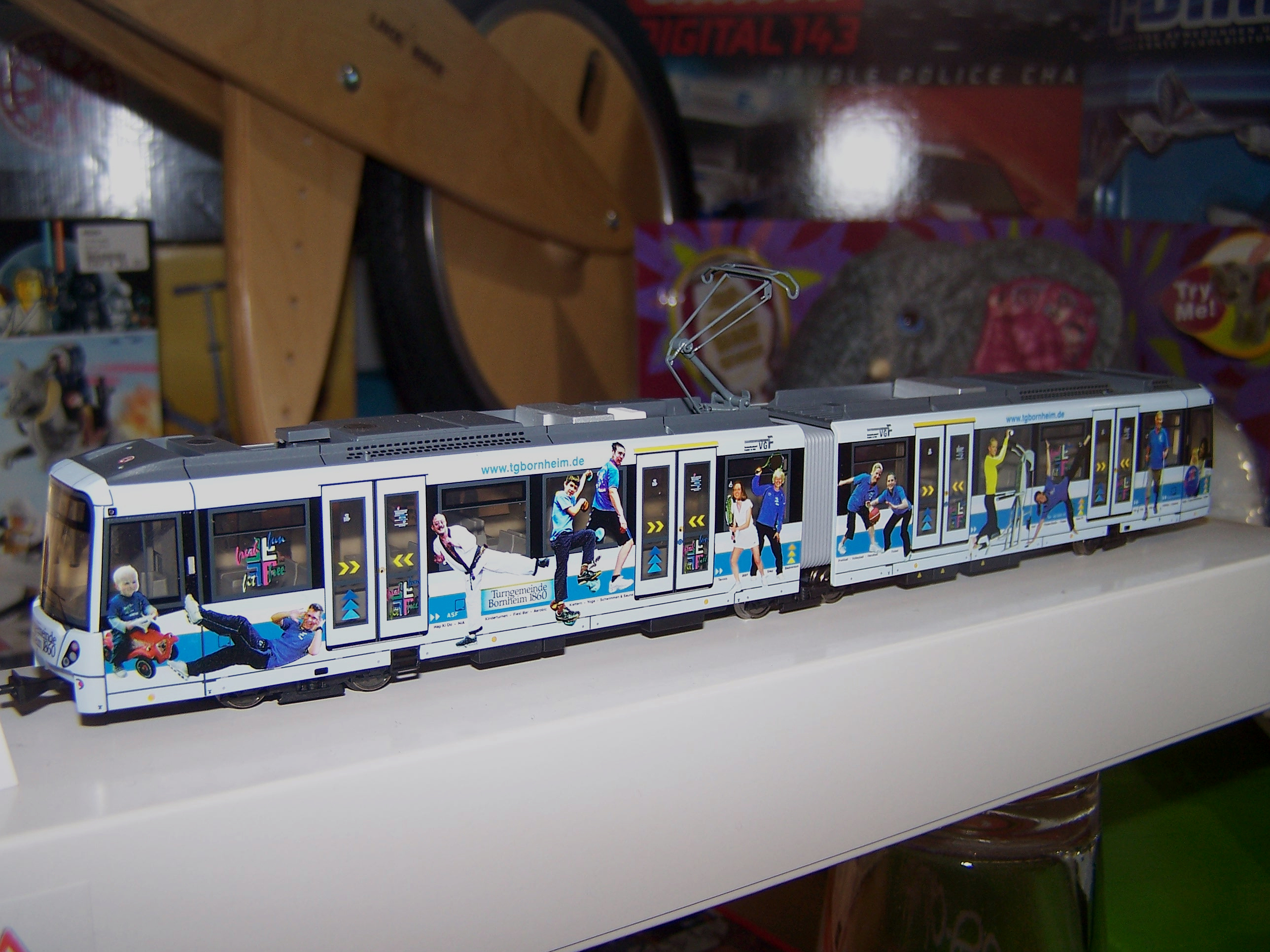 H0-model of a U5-railcar of the VGF with advertisement of the Turngemeinde Bornheim in Frankfurt am Main-Bornheim